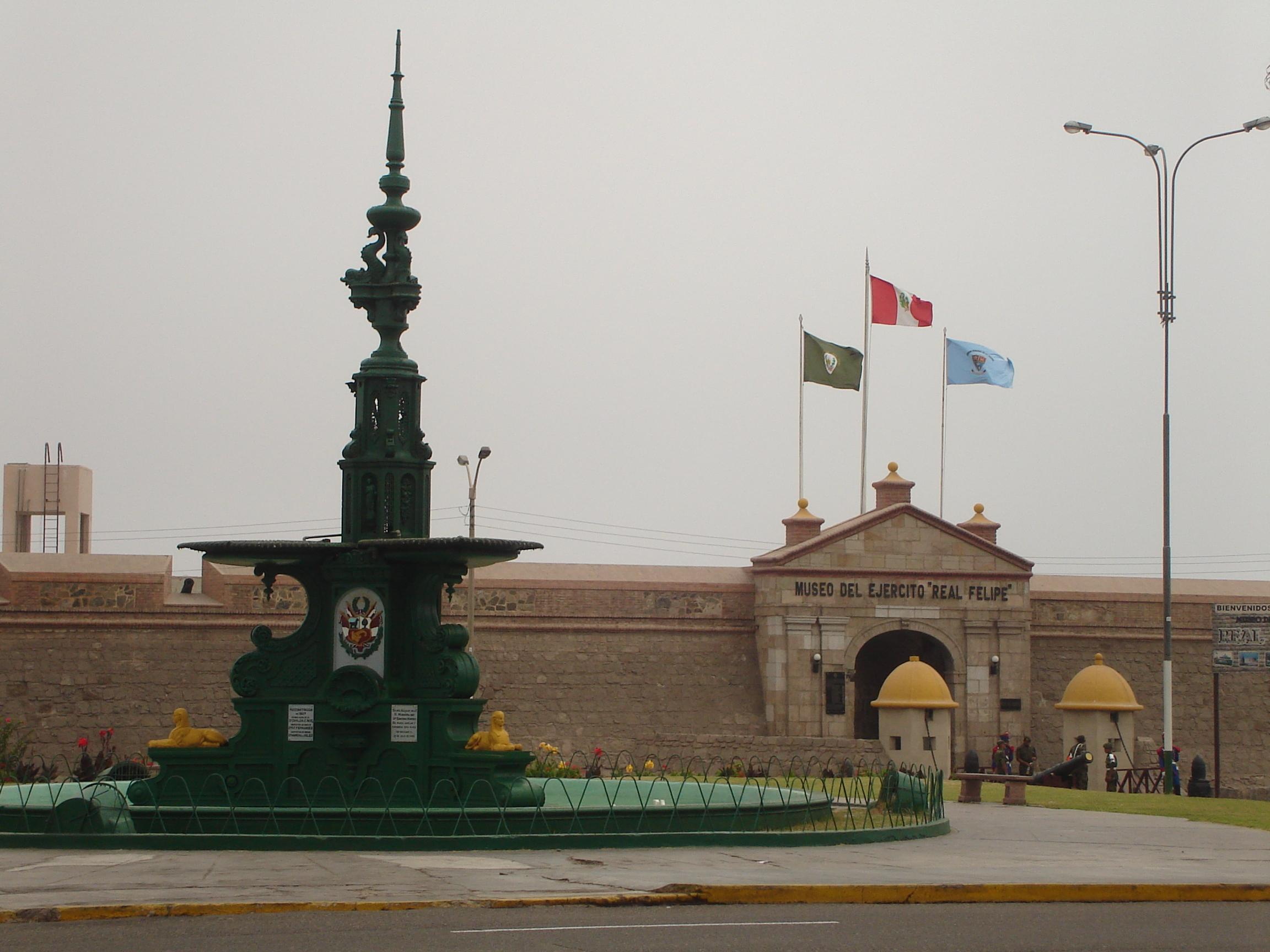 Frontis Real Felipe